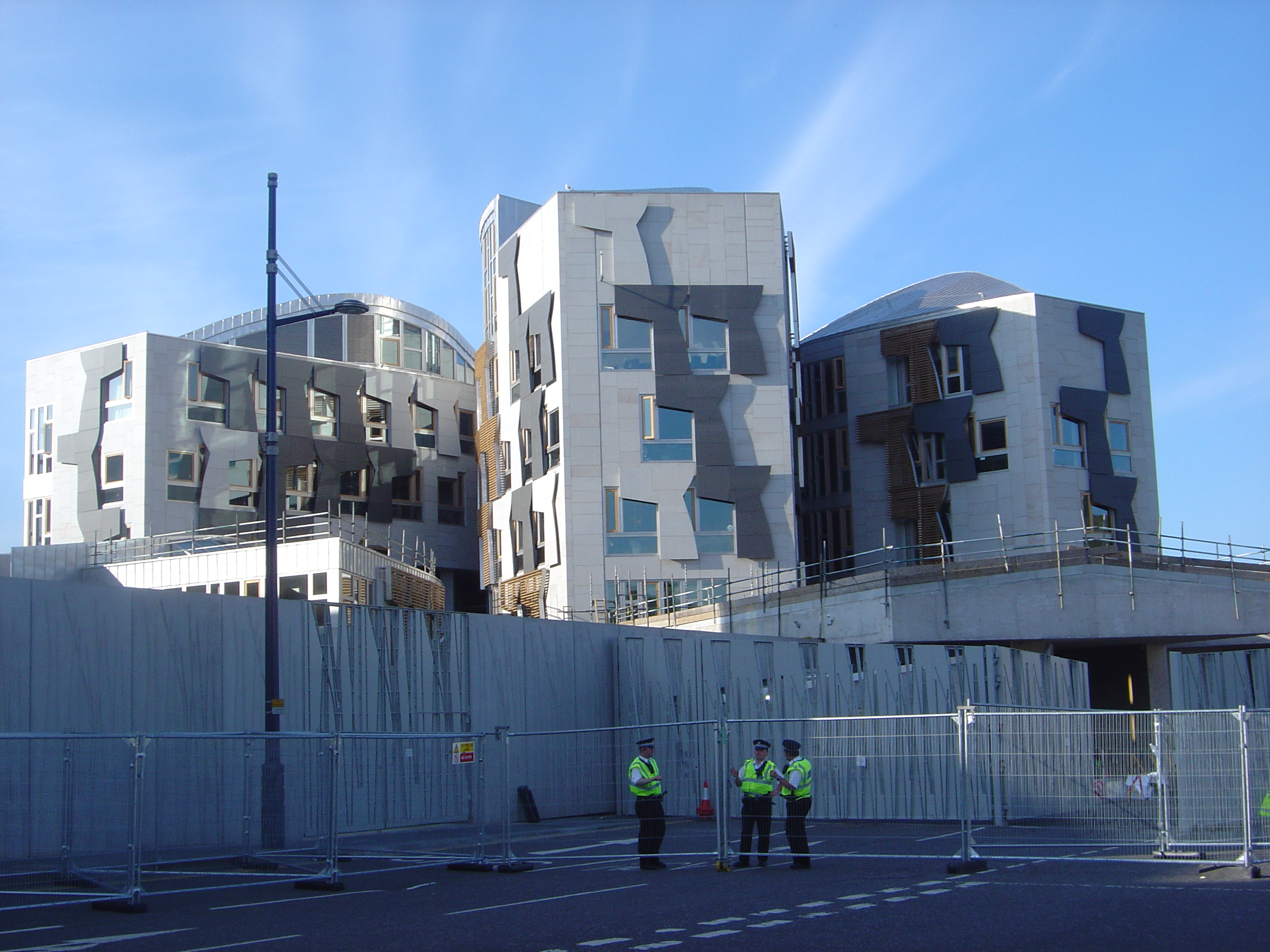 The buildings of the Scottish Parliament, Edinburgh, with police deployed for the 31st G8 summit.